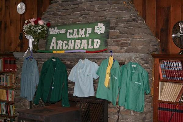 A former counselor's picture of the Camp Archbald Lodge Fireplace during the Camp Archbald 85th Anniversary Staff Reunion. Category:Girl Scouts of the USA images